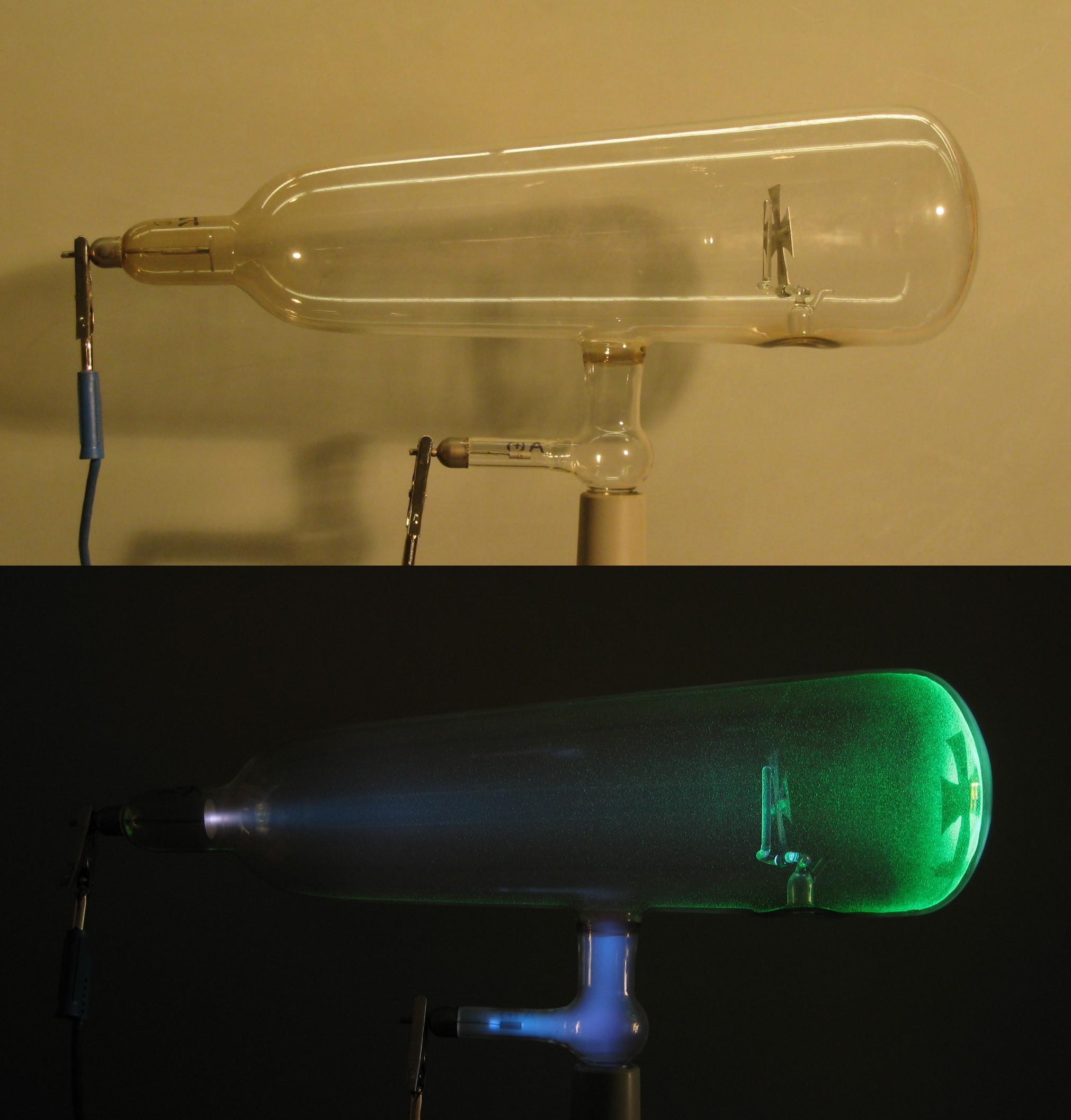 Two photos of a Crookes tube; one by ordinary light and one showing it in operation lit by its own fluorescence. In operation several thousand volts of DC electricity is applied between the two electrodes in the tube. The electrode to the left is the cathode or negative electrode, the electrode in the L-shaped tube at bottom is the anode or positive electrode. Electrons released by the cathode are attracted toward the positive space charge in center of the tube, created by the positive anode at bottom, and they accelerate down the tube to the right. Because of inertia, many electrons speed past the anode rather than actually hitting it. They hit the glass wall of the tube, making the glass fluoresce green; after that, they eventually travel to the anode and leave the tube, passing through the wires and the power supply and back to the cathode. The cross-shaped metal plate blocks the electrons, casting a cross-shaped shadow on the glowing wall, demonstrating that the electrons travel in straight lines. The cross can be folded down against the floor of the tube, showing it is the cause of the shadow. The shadow can be moved and distorted by holding a permanent magnet to the side of the tube, demonstrating the bending effect that magnetic fields exert on electron rays. This 'Maltese cross' demonstration form of Crookes tube was first made by Juliusz Plucker in 1869, and was very popular in classrooms around the turn of the century. Alterations to image: Cropped component images and combined into one image.